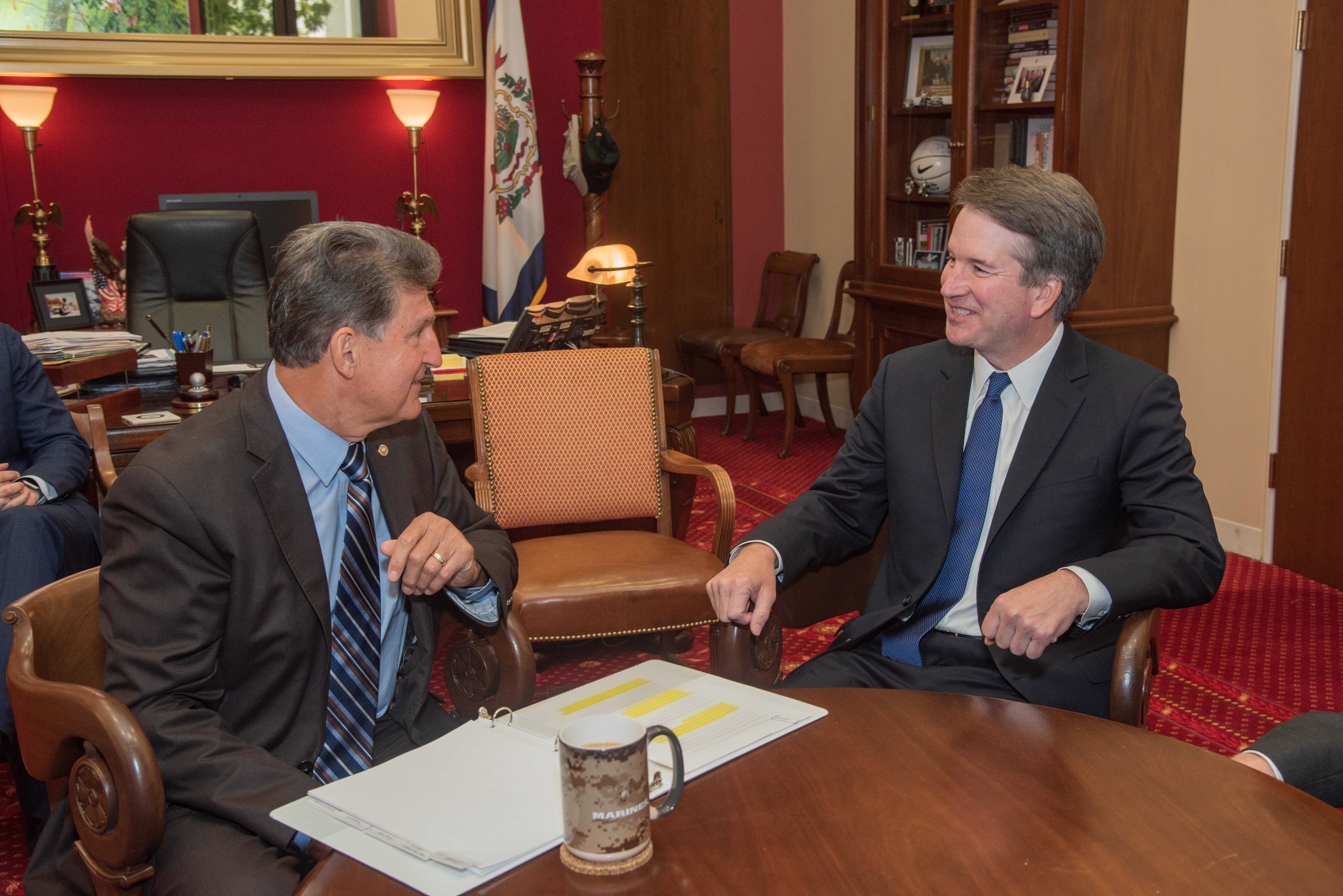 Over the last two weeks West Virginians have contacted me more than 8,000 times with their opinions on Judge Kavanaugh and the questions they have for him, and when I met with him today, I asked him several of their questions.